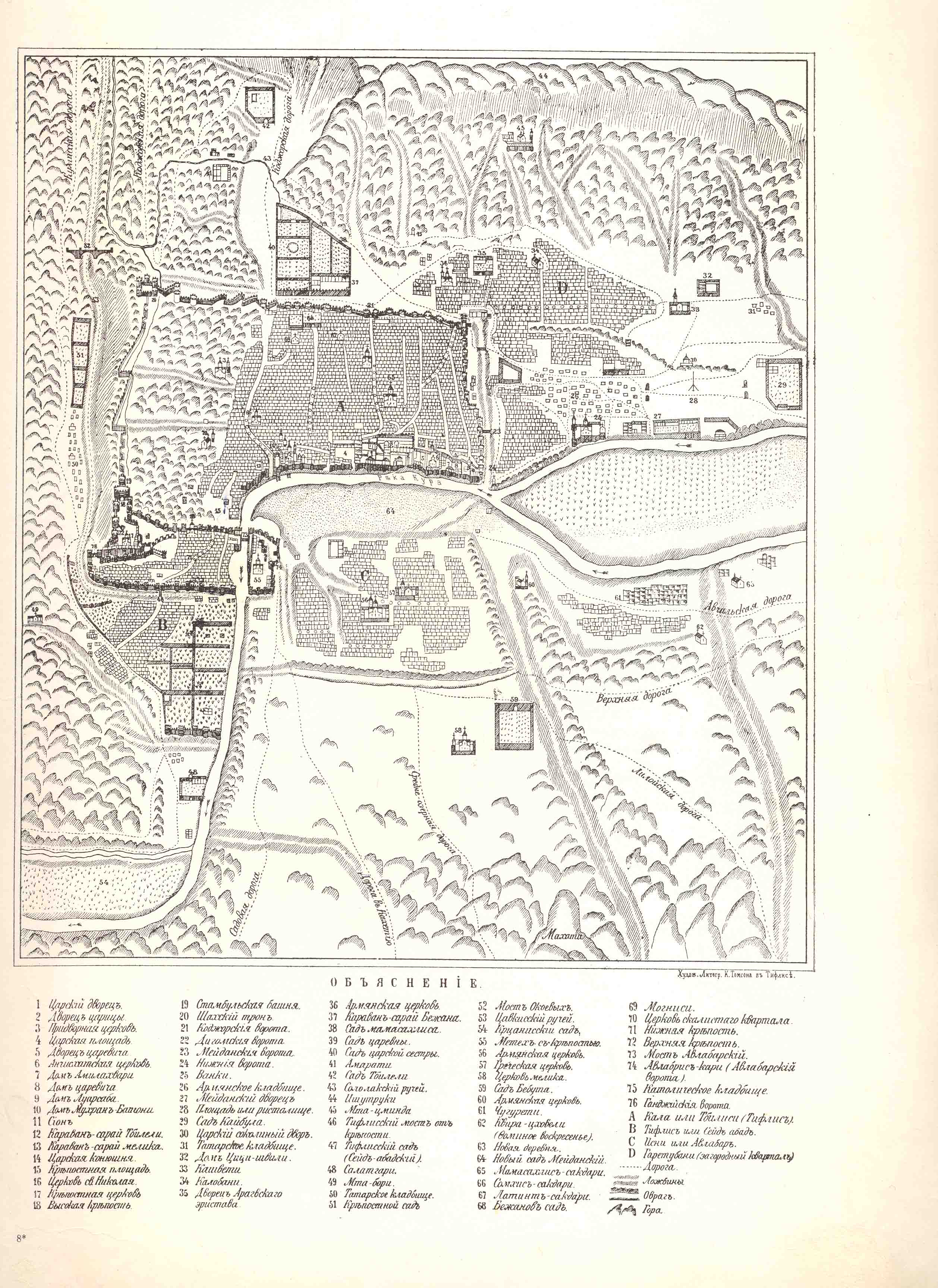 Map of the city of Tbilisi drawn by Prince Vakhushti Bagrationi in the 1730s. A Russian translation of the legends from the Imperial Russian era.